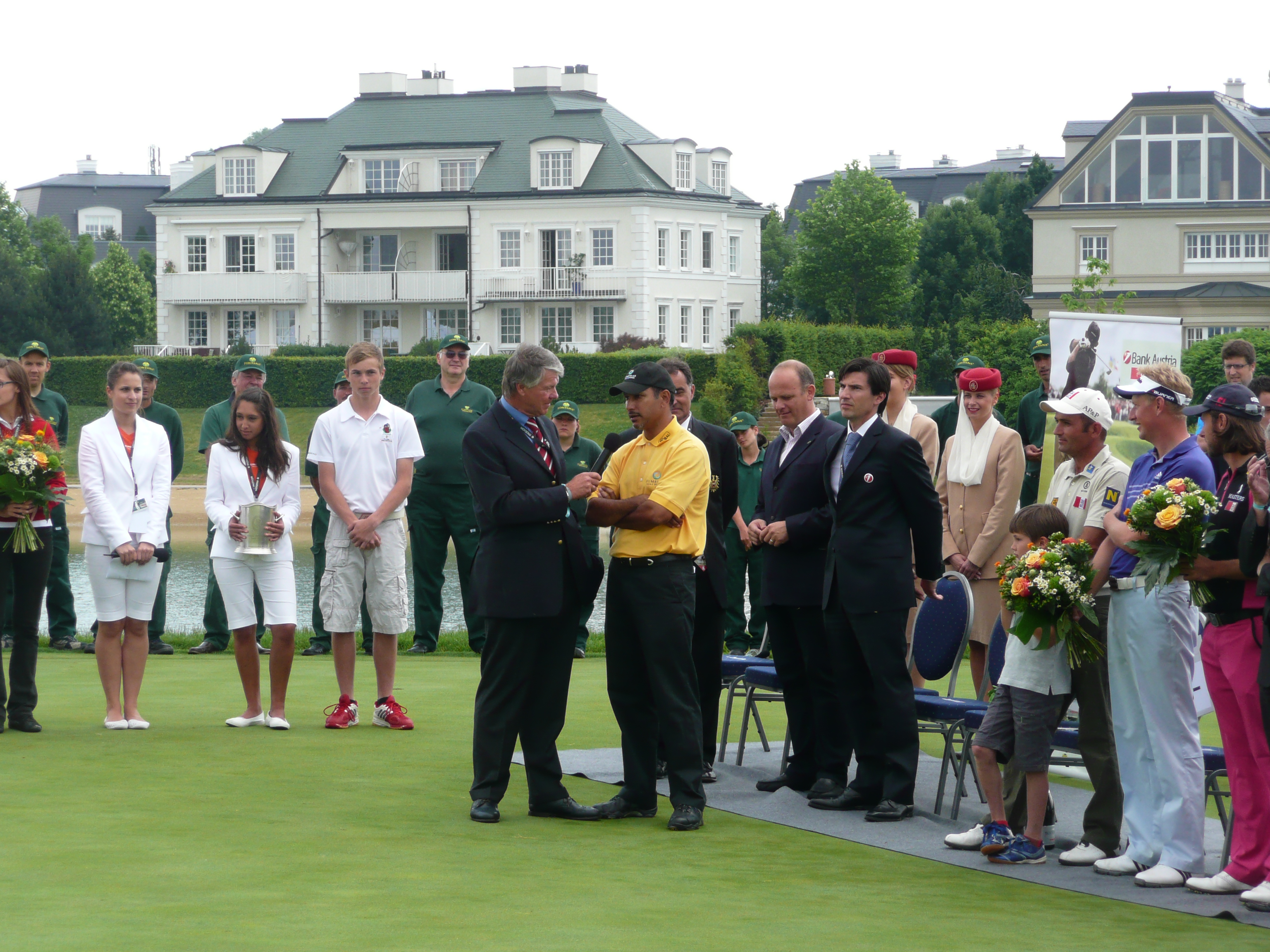 The winner Jeev Milkha Singh being asked about his play at the award ceremony 2008 Bank Austria GolfOpen presented by Telekom Austria (European Tour) at Golfclub Fontana.